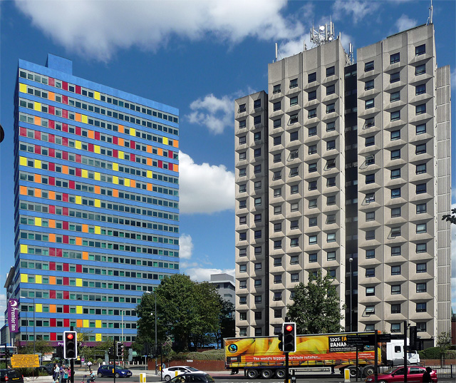 St George's Tower, St George's Way and Elizabeth House, Waterloo Way, Leicester